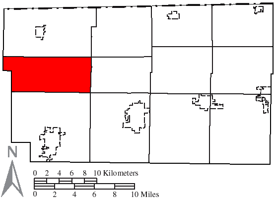 Made by the US Census and modified by myself